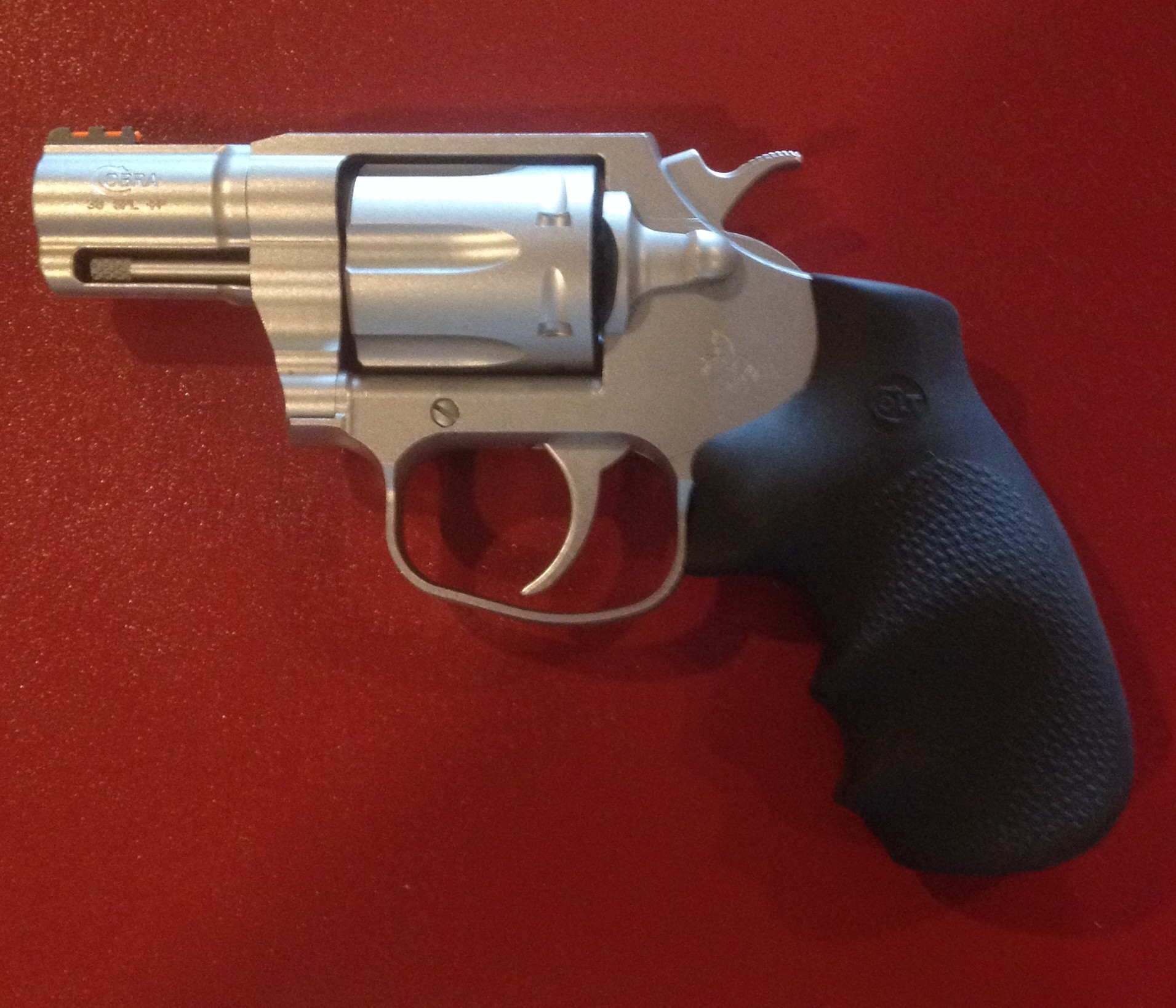 Photo of Colt Cobra revolver 2017 rerelease.